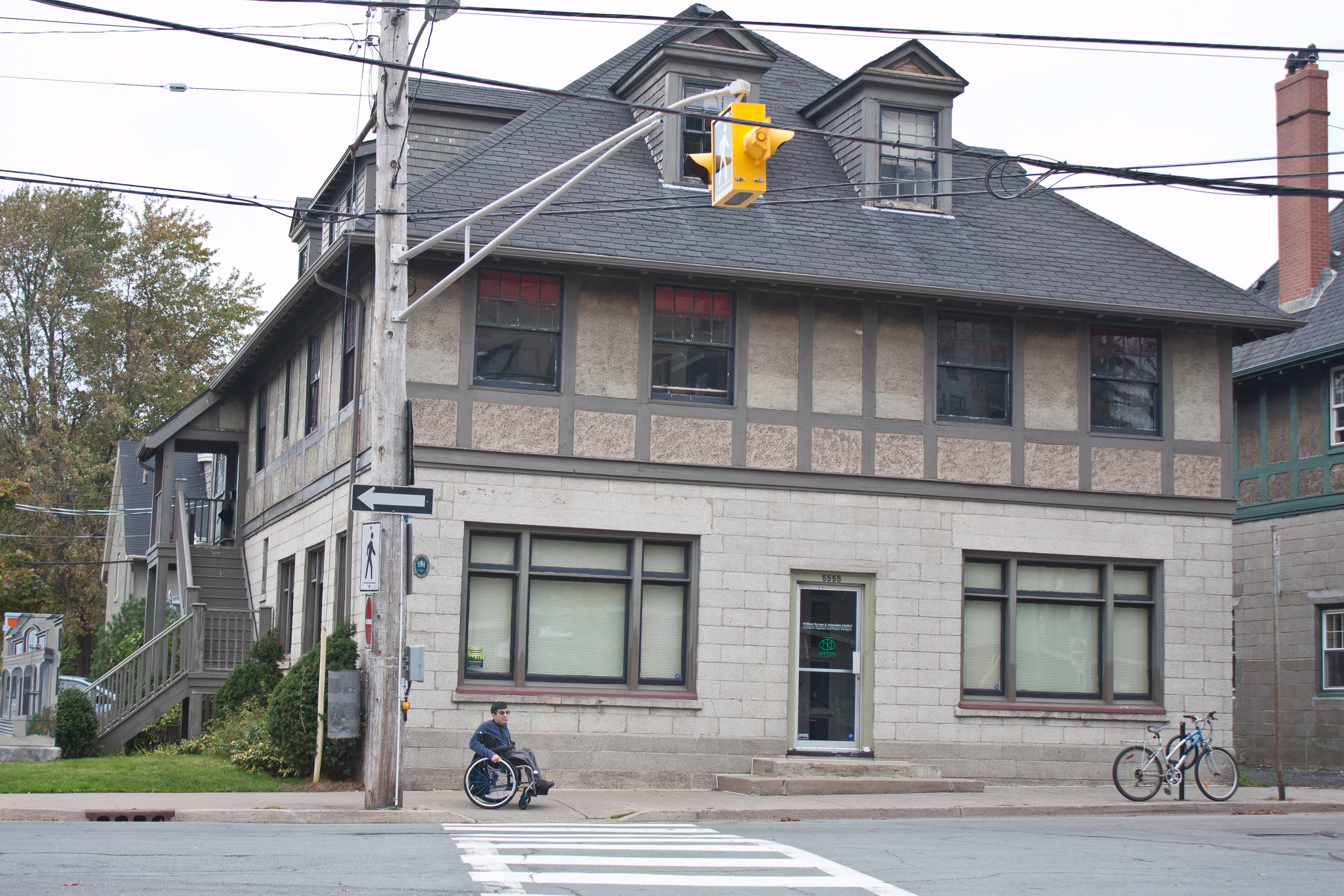 Halifax Relief Commission Building